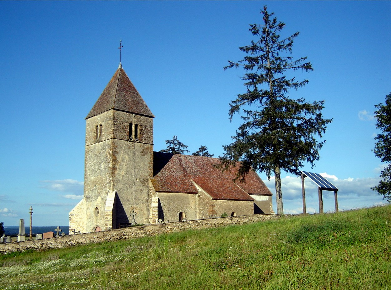 Parish Church of Saint-Aubin-des-stubble, Nièvre, France.